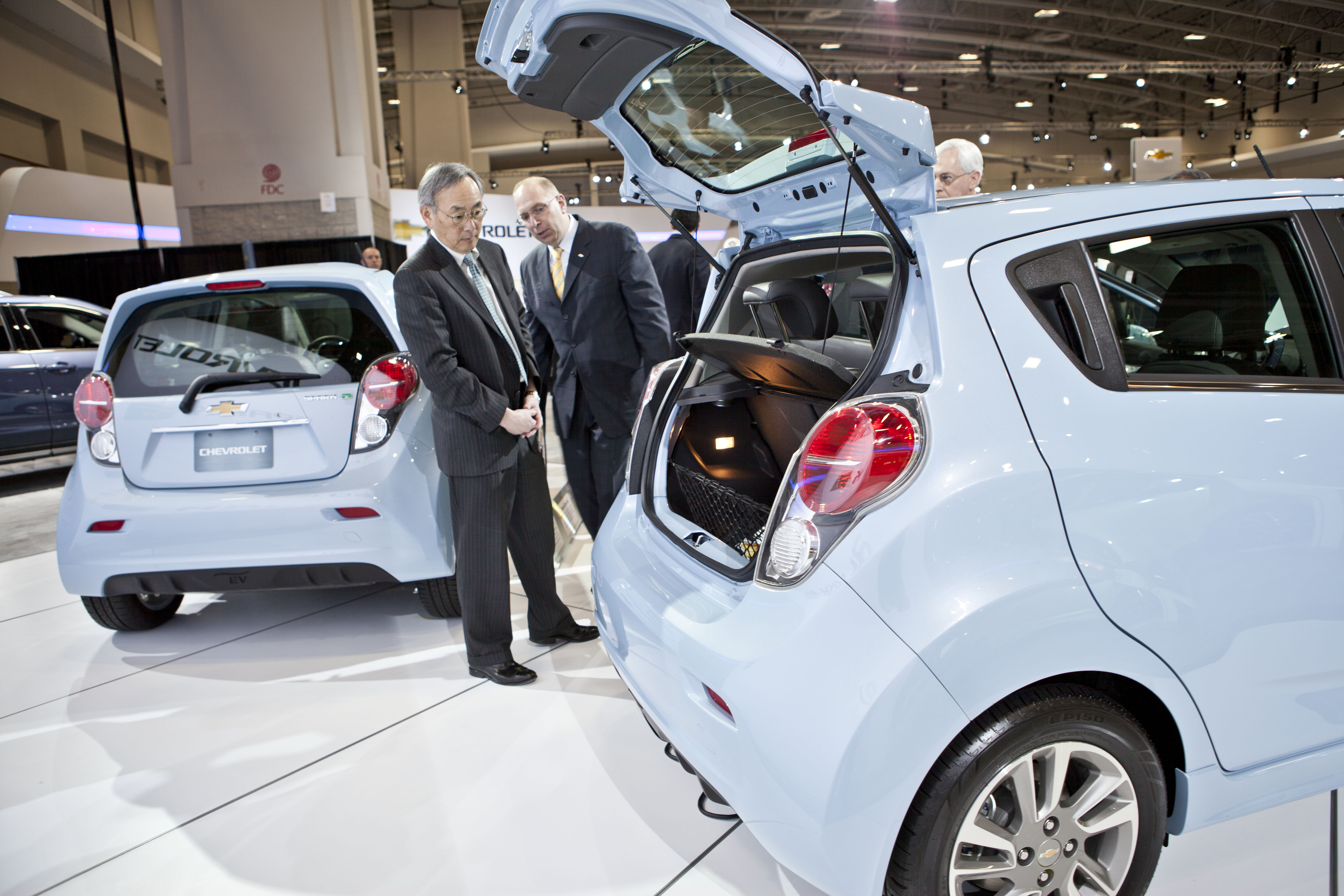 DoE Secretary Steven Chu discusses the features of the Chevrolet Spark EV exhibited at the 2013 Washington Auto Show